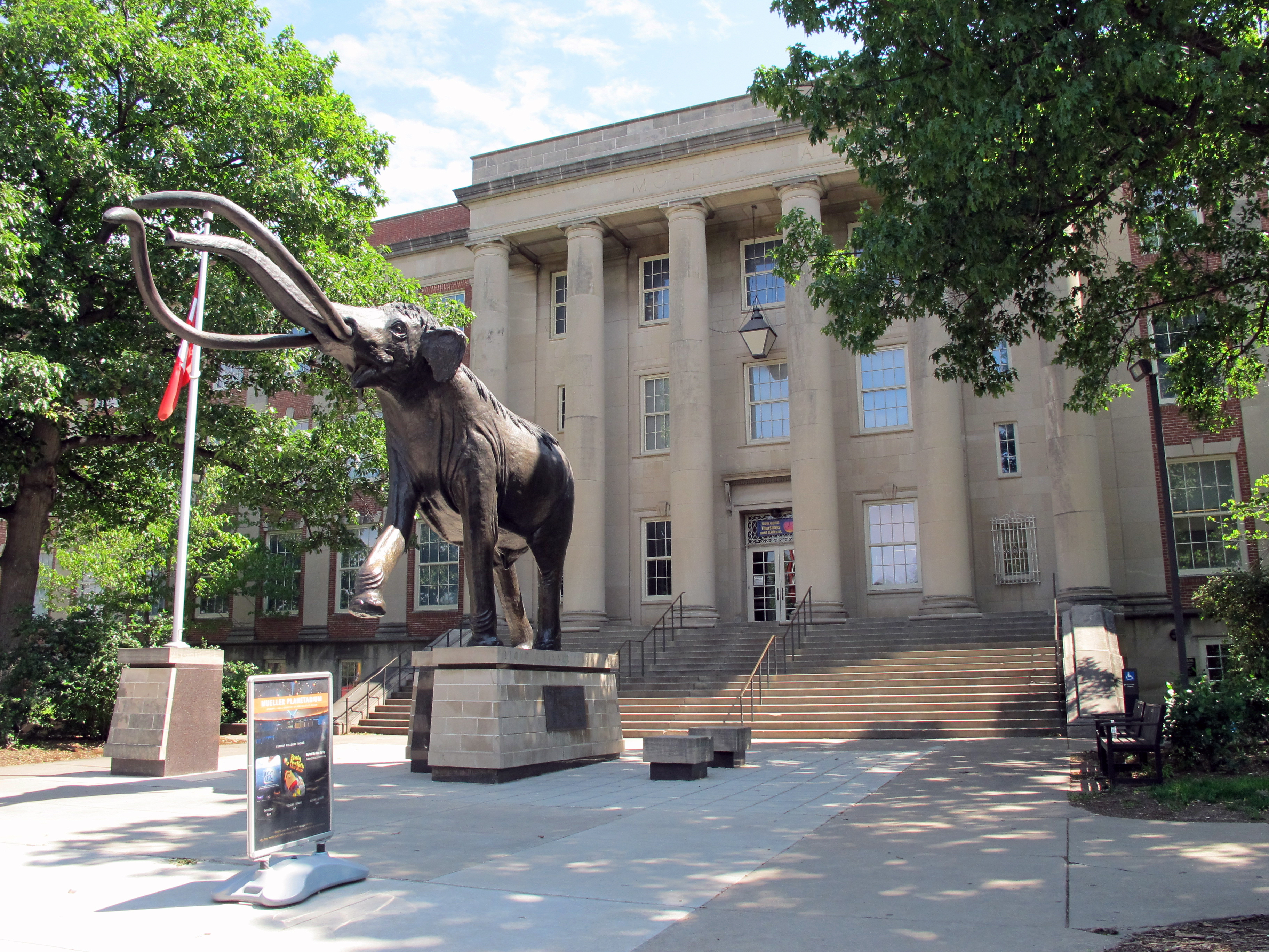 Photo of Lloyd G. Tanner Plaza featuring Fred J. Hoppe's bronze statue of "Archie" (left of center) and the main entrance to Morrill Hall (645 N. 14th Street; right of center). Both are on the University of Nebraska-Lincoln City Campus in Lincoln, Nebraska. Photo is looking south-southeast towards the north side of Morrill Hall.